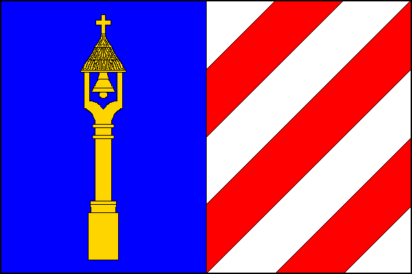 Municipal flag of Radíkovice village, Hradec Králové District, Czech Republic.